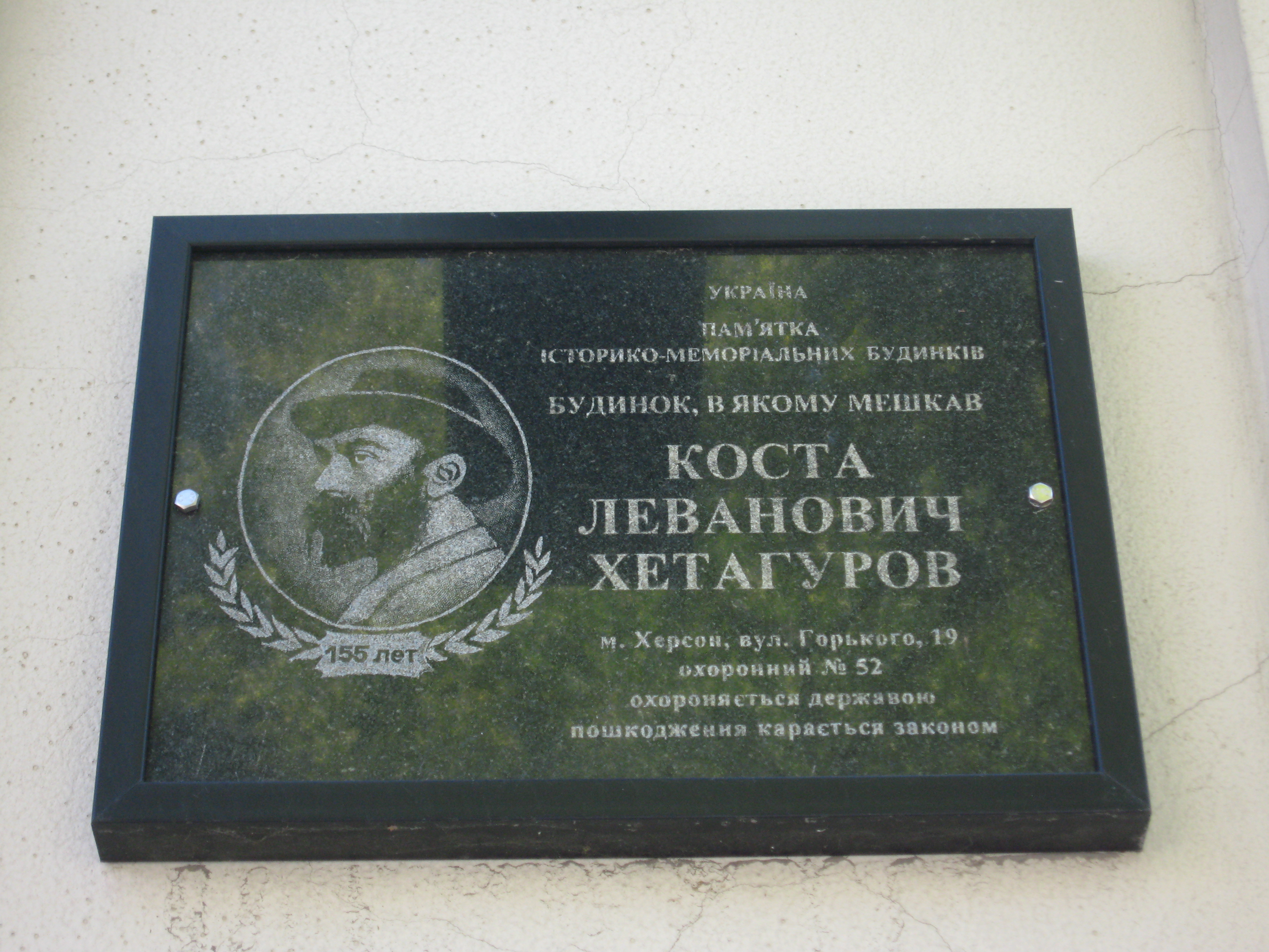 Memorial plaque on heritage House on the Theatrical str, 19; Kherson in which lived Costa L. Khetagurov.